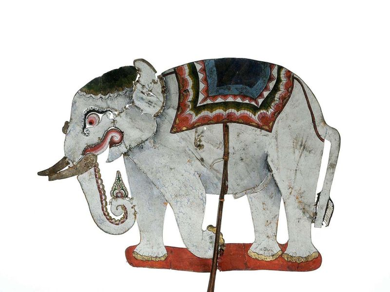 Wayang kulit figure, representing an elephant